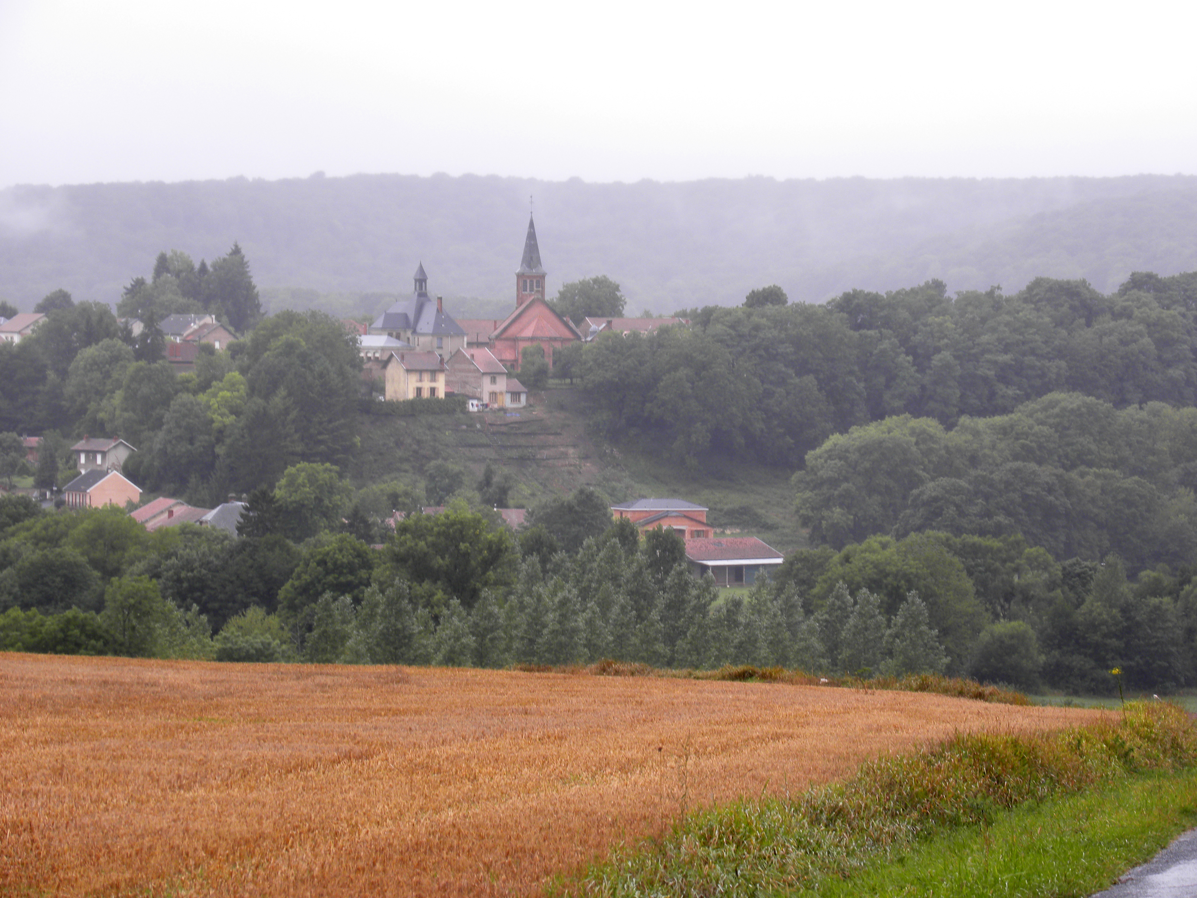 Apremont, France, viewed from the east.